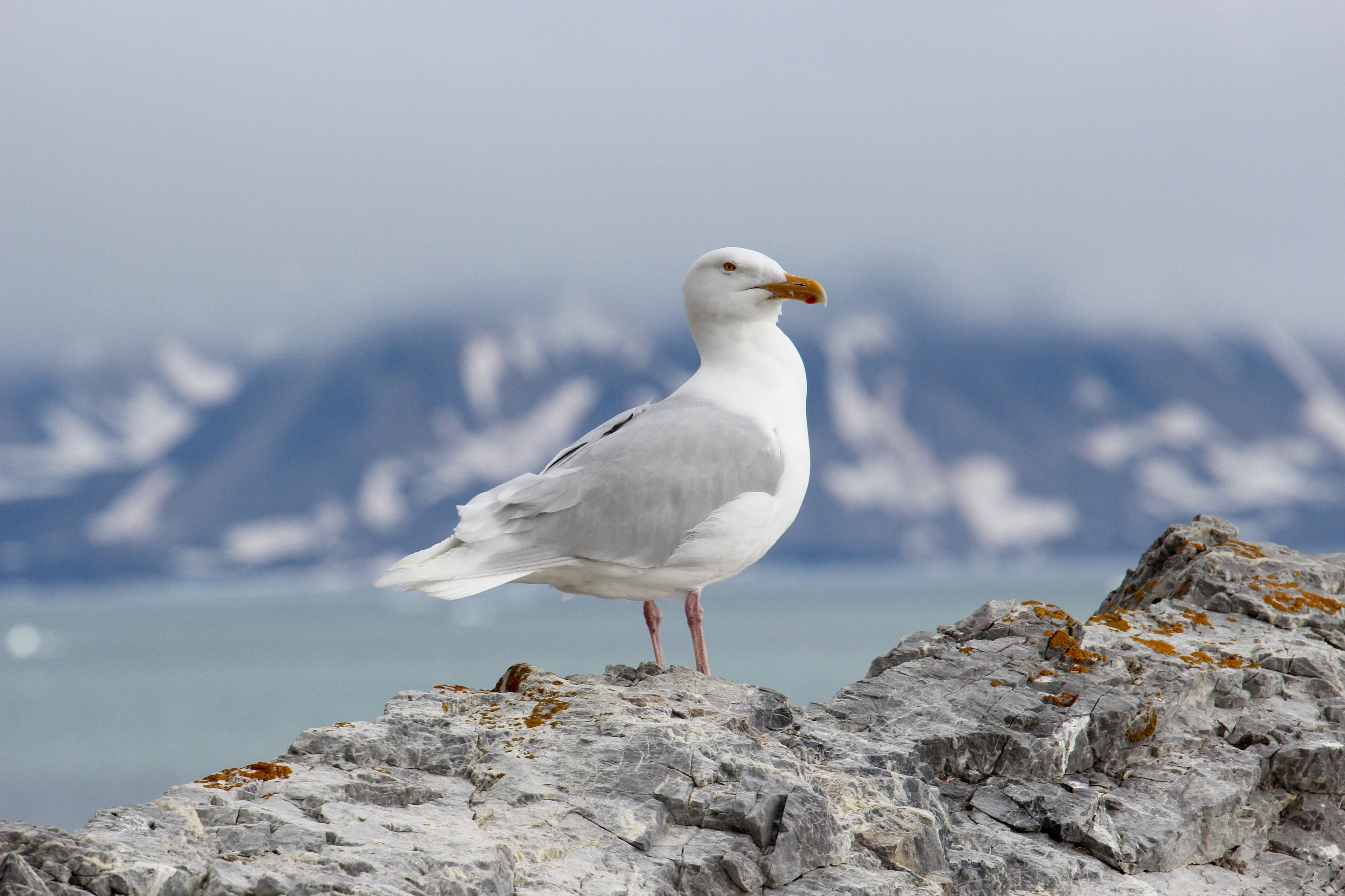 Pictures taken on my Silversea Silver Explorer Arctic cruise. For more on the cruise and dates visit bit.ly/ArcticCruise